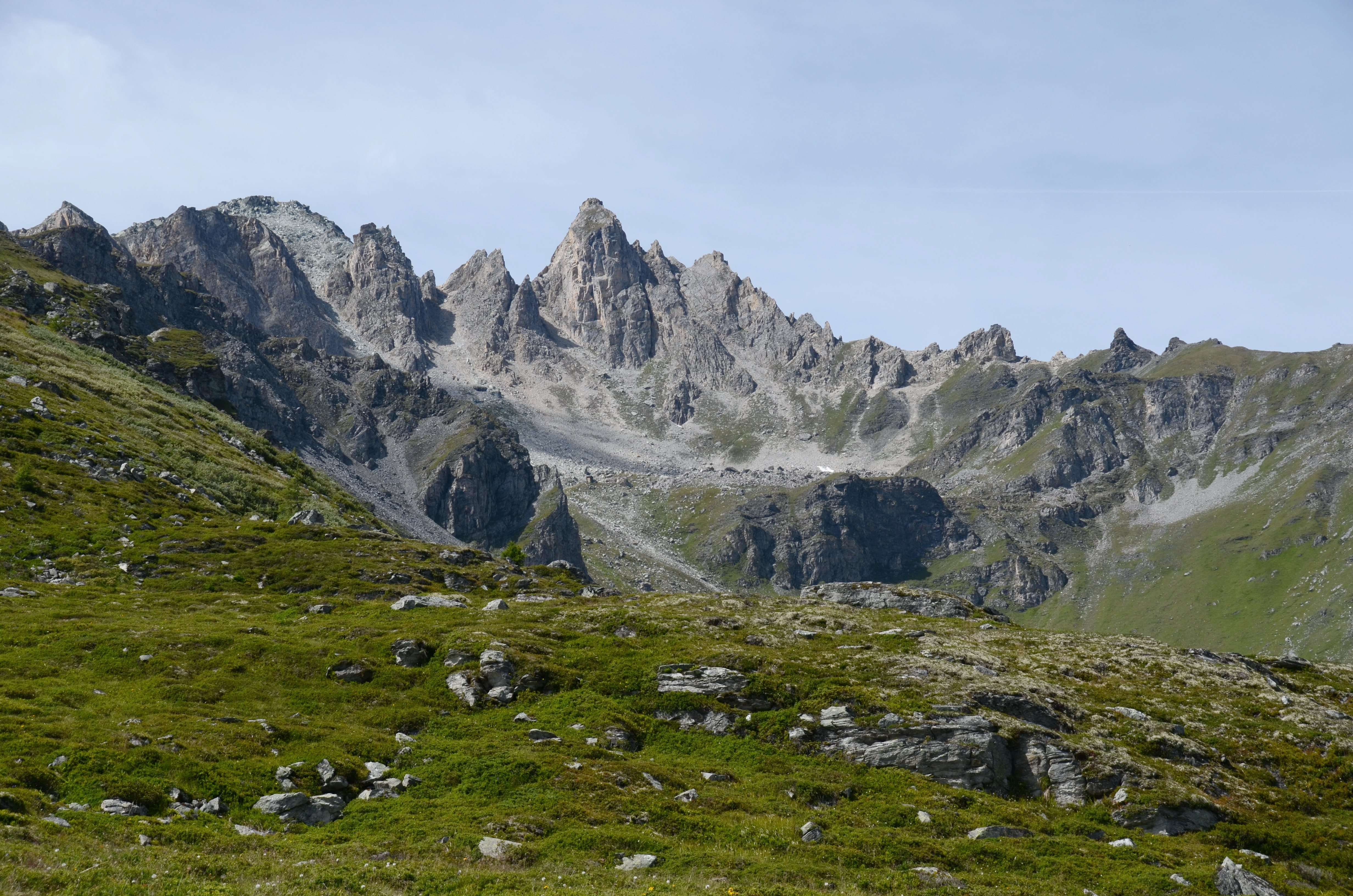 The Pic d'Artsinol 2997m as seen from the Easter valley below it. Here there is a nice almost horizontal walking path and a mountainbike route.